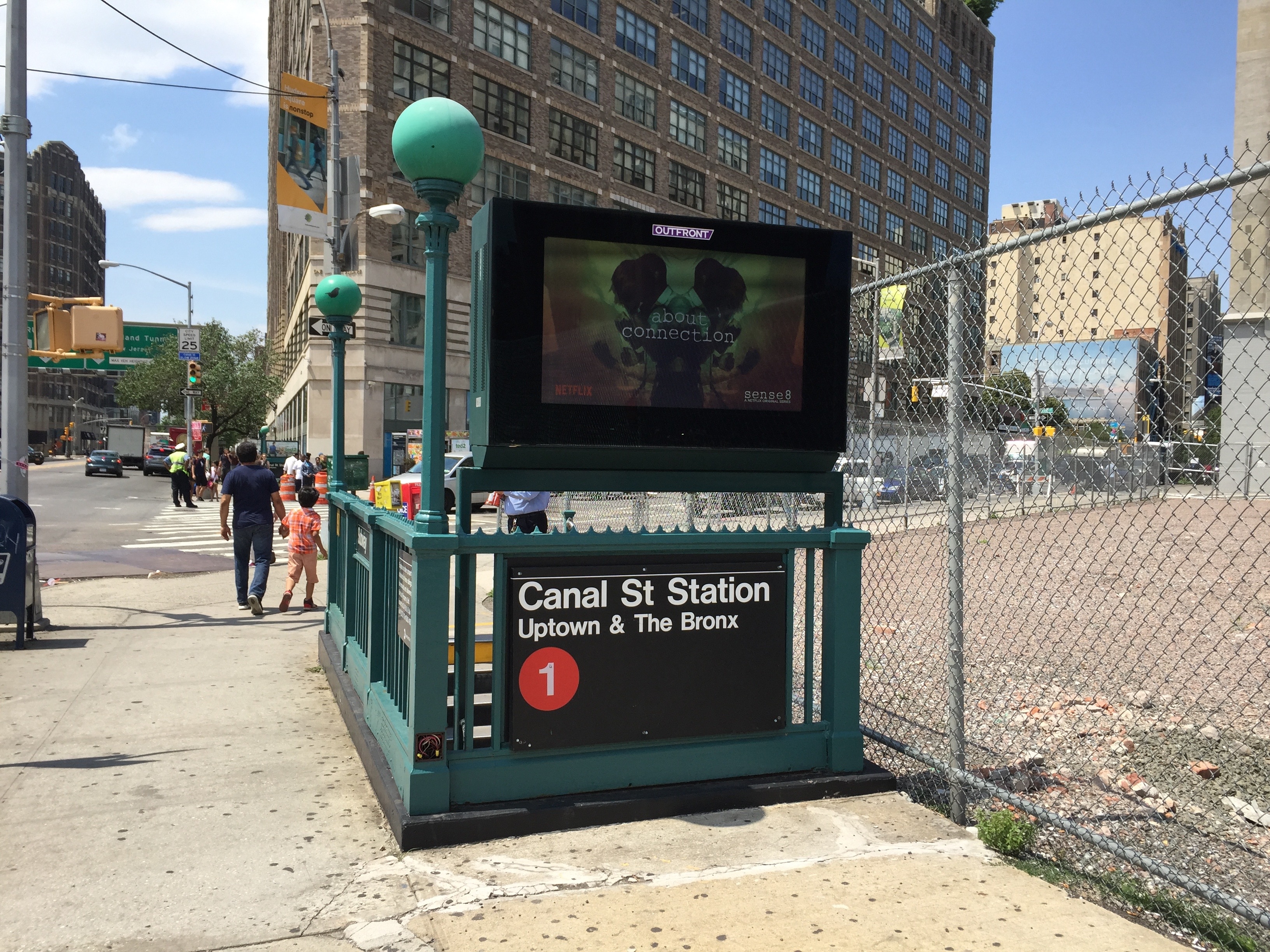 One of two stairs at the NE corner of Canal and Varick Streets to the uptown 1 platform.